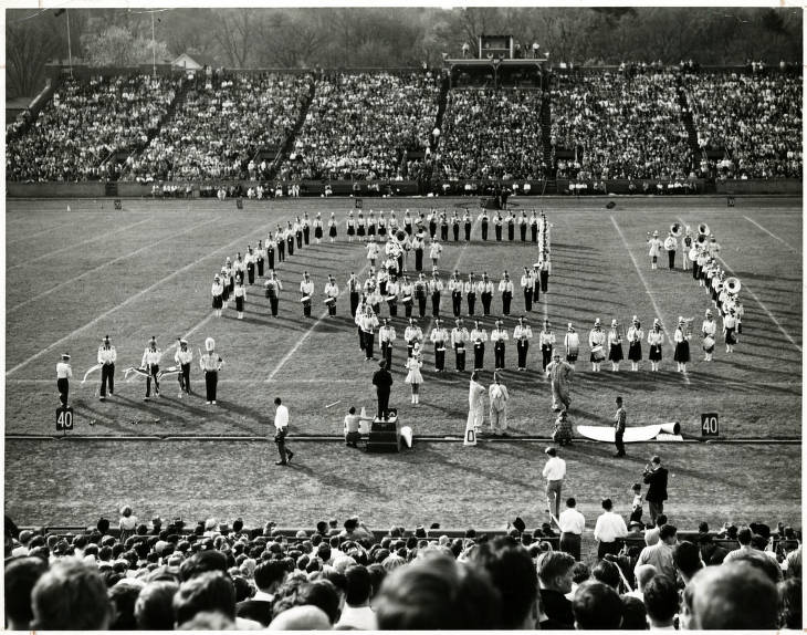 Ohio University Marching Band Early 60's